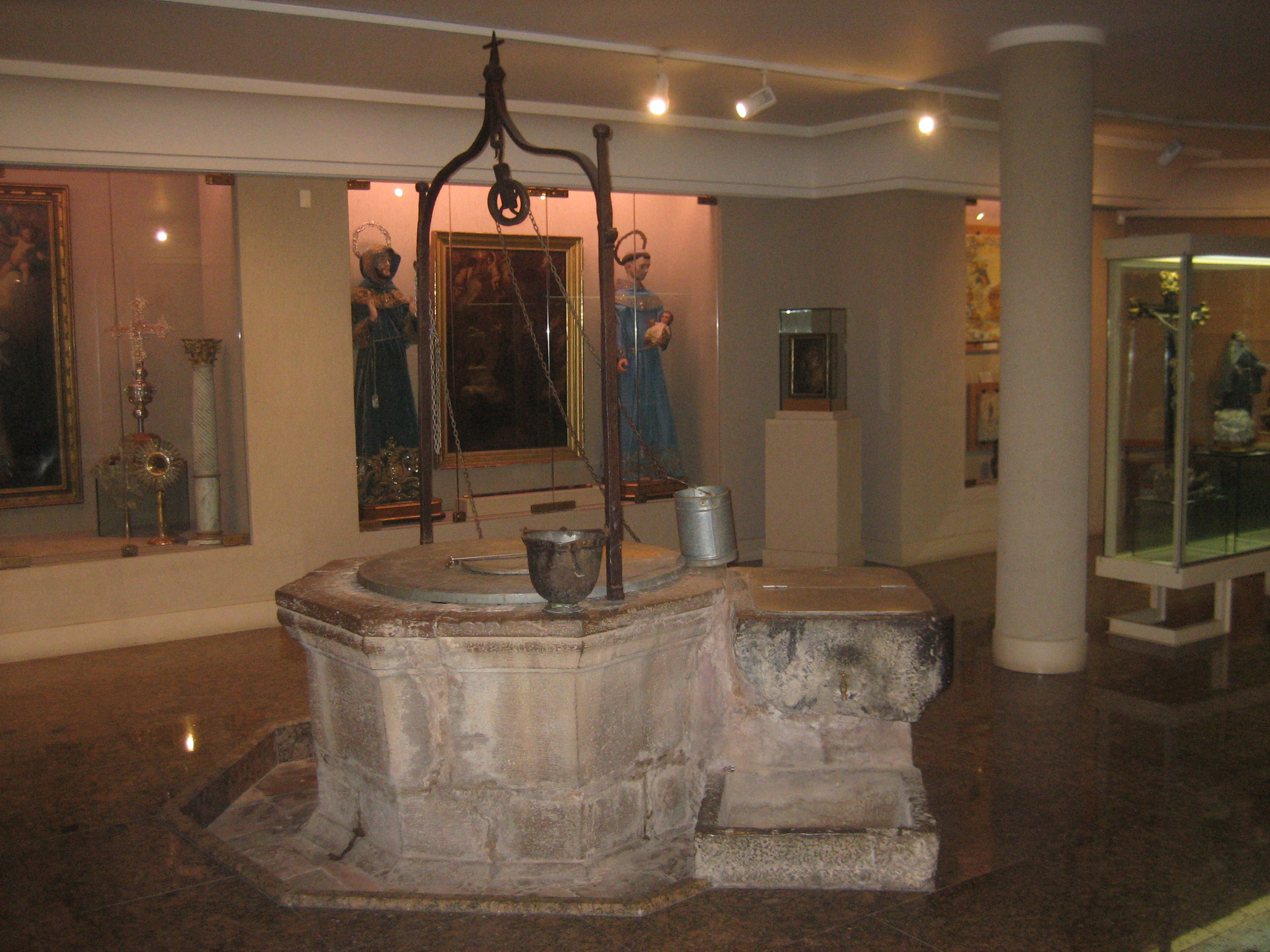 Well, known as "Pouet del Sant", located at St. Paschal Sanctuary in Vila-real